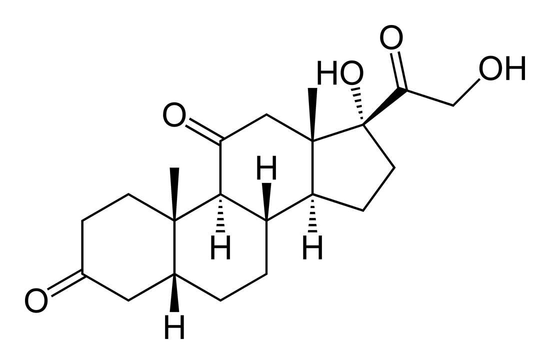 Skeletal formula of dihydrocortisone, C21H30O5. Structure drawn in ChemDraw Ultra 11.0. Structure from ChemDraw name-to-structure function and from ChemSpider.